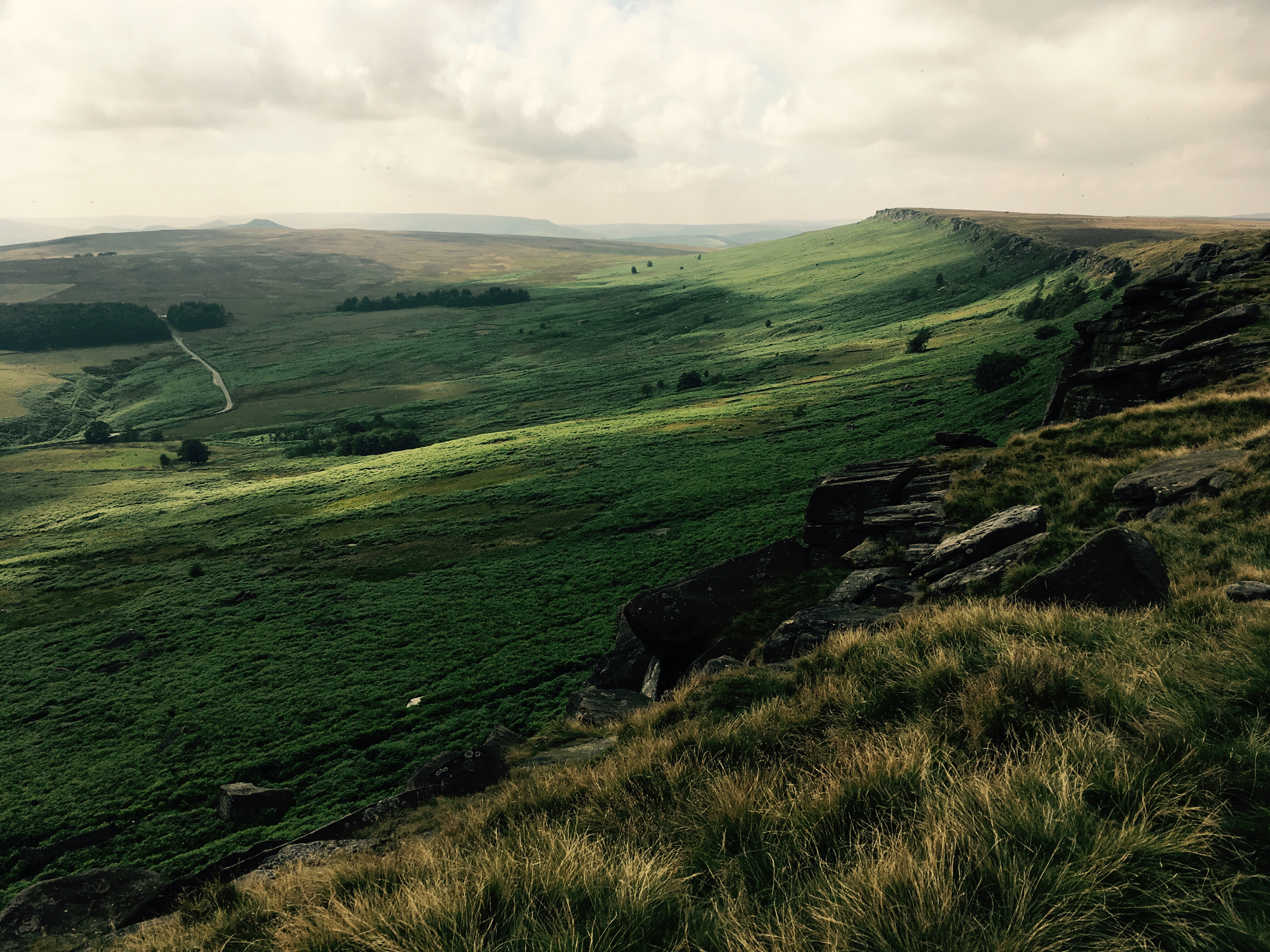 View north-west along Stanage Edge near Hathersage, Derbyshire, UK